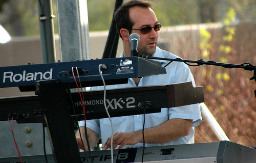 Joel Cummins of Umphrey's McGee on Earth Day 2007 at the Lincoln Park Zoo in Chicago, Illinois.